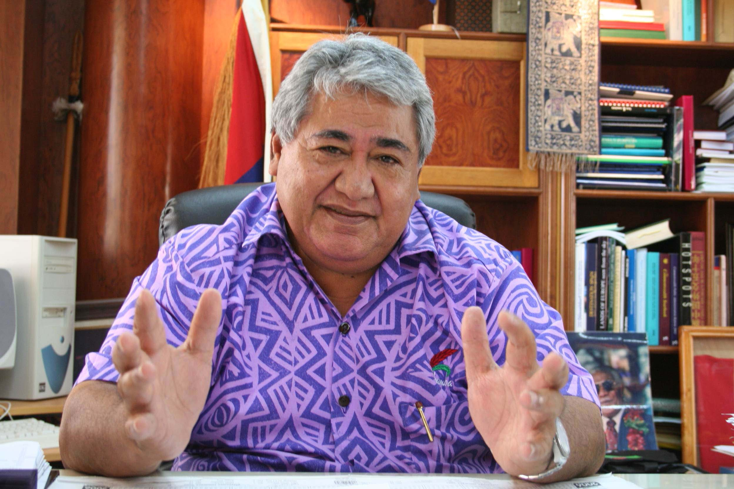 Tuilaepa Aiono Sailele Malielegaoi, Prime Minister of Samoa.